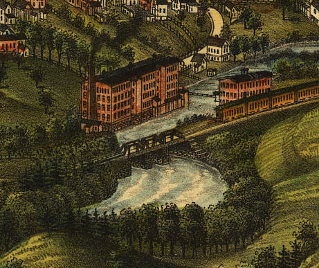 Mill & Train, Milton, NH; detail from an 1888 panoramic map by George E. Norris.